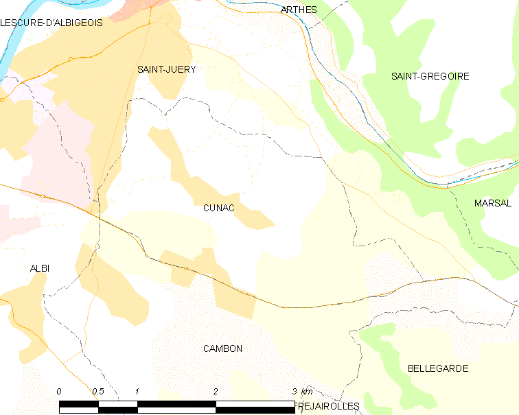 Map of French municipality Cunac